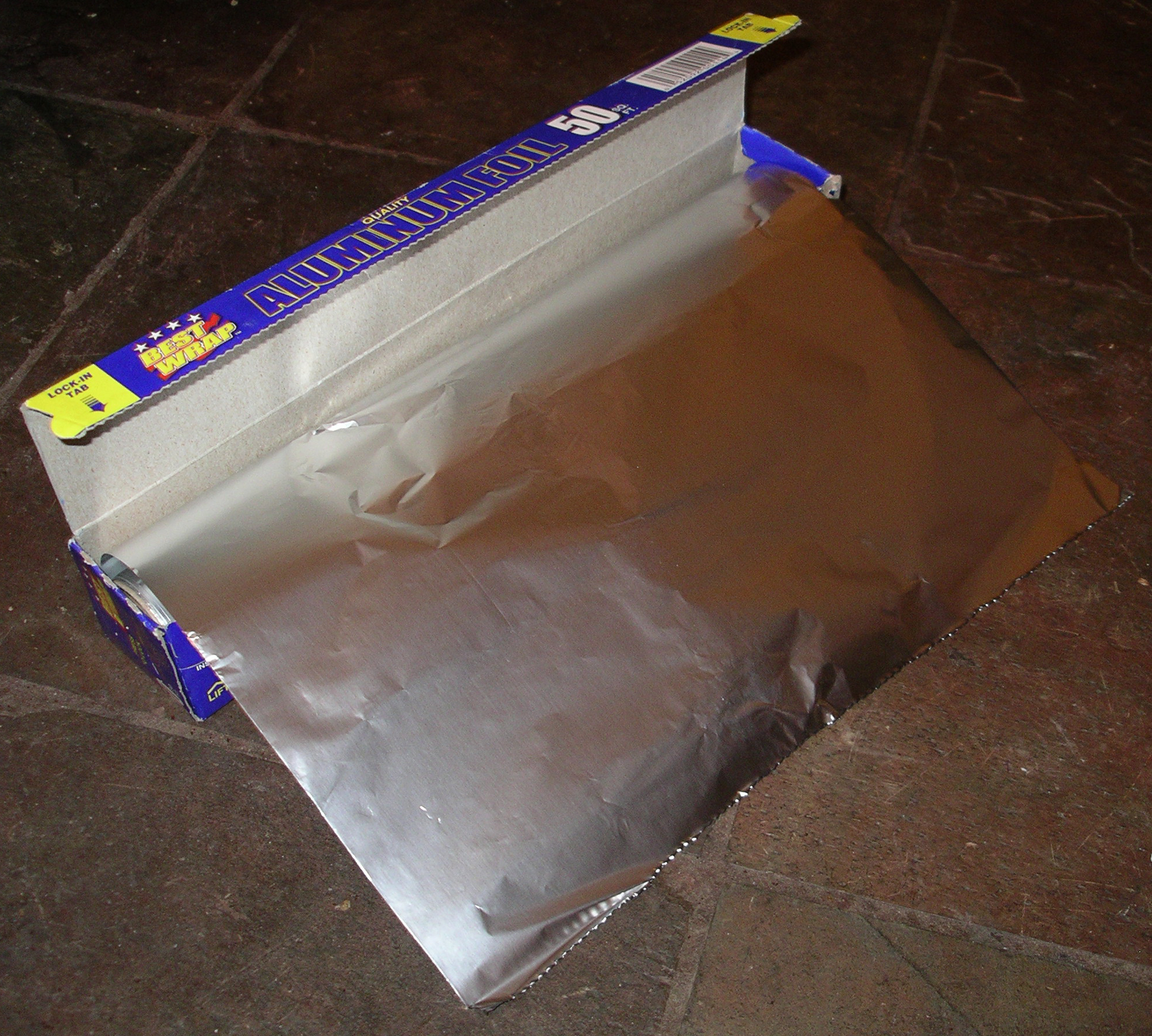 Household aluminium foil